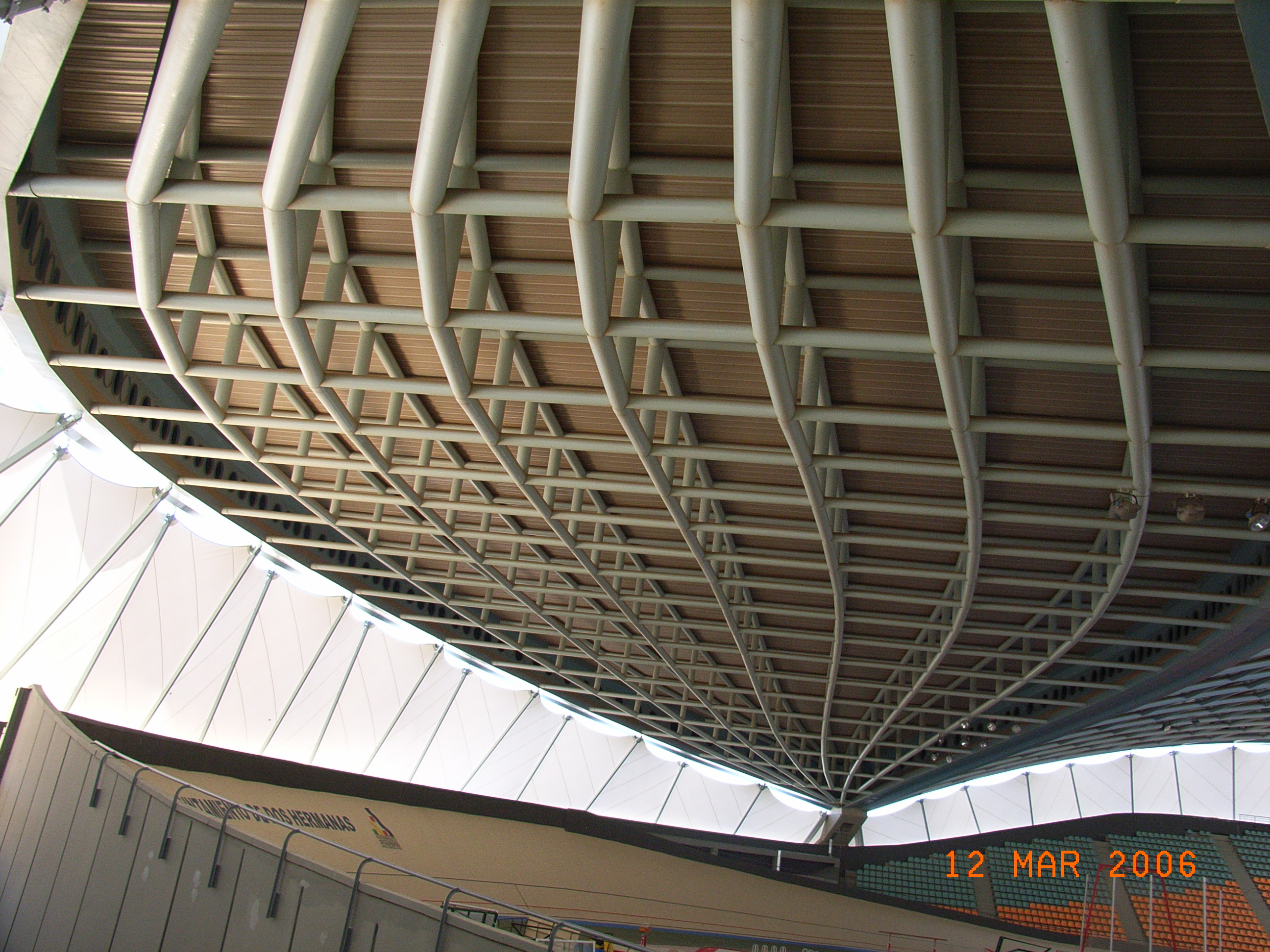 Oval latticed roof 140 m. lenght and 110 m wide for a Velodrome in Dos Hermanas. Seville